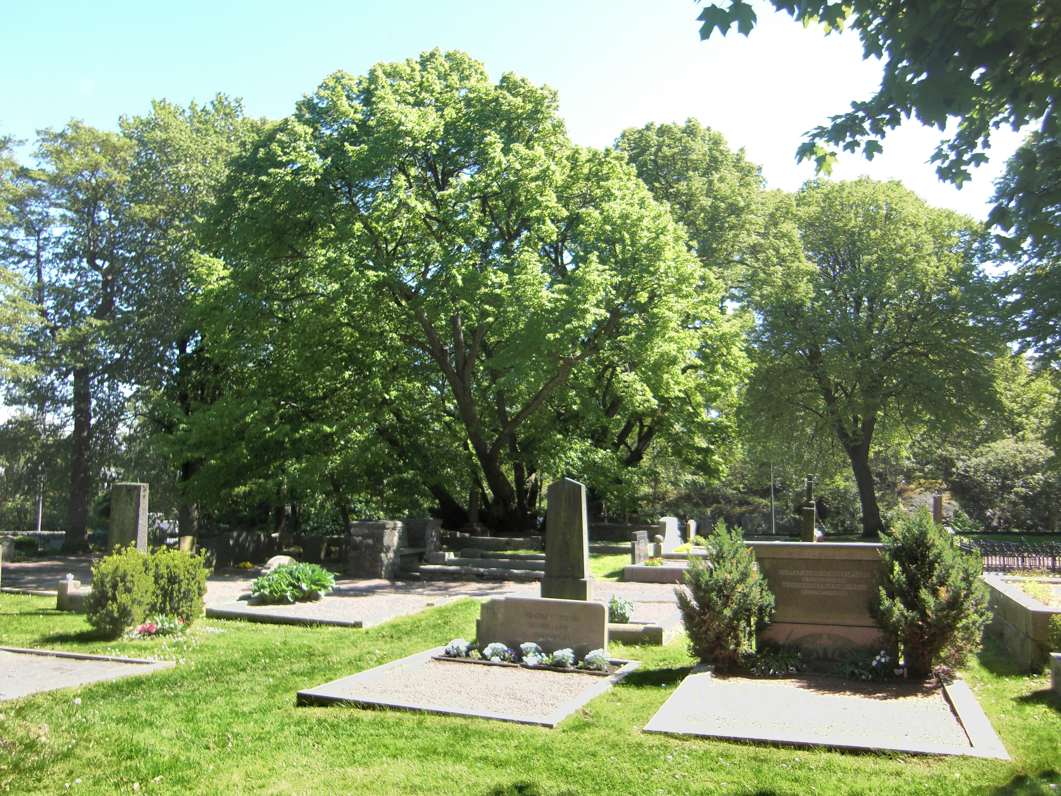 The so called "Thusand Years Old Lime" at Torslanda Church, Västra Hising Hundred, Göteborg Municipality, Bohuslän, Sweden. It is a Small-leaved Lime (Tilia cordata). The tree is at least 800 years old.